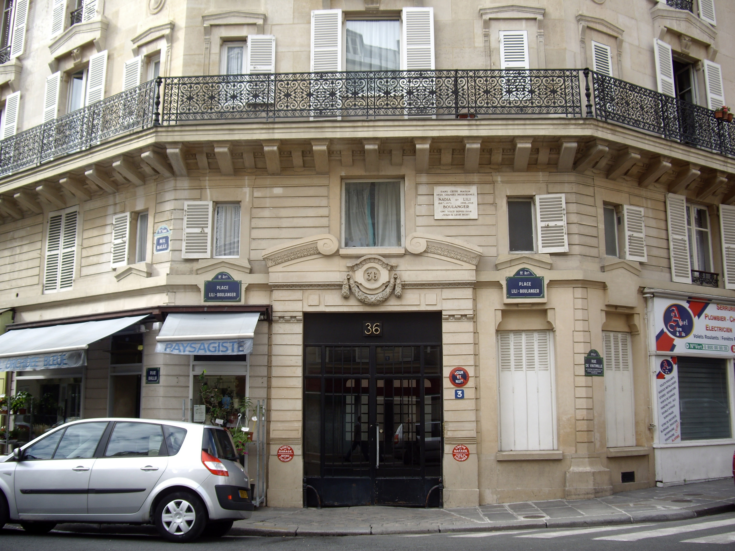 Place Lili-Boulanger, Paris 9th. House of Nadia (1887-1979) and Lili (1893-1918) Boulanger at No 3 Place Lili-Boulanger, formerly No 36 Rue Ballu, where they lived from 1904 up to their deaths.